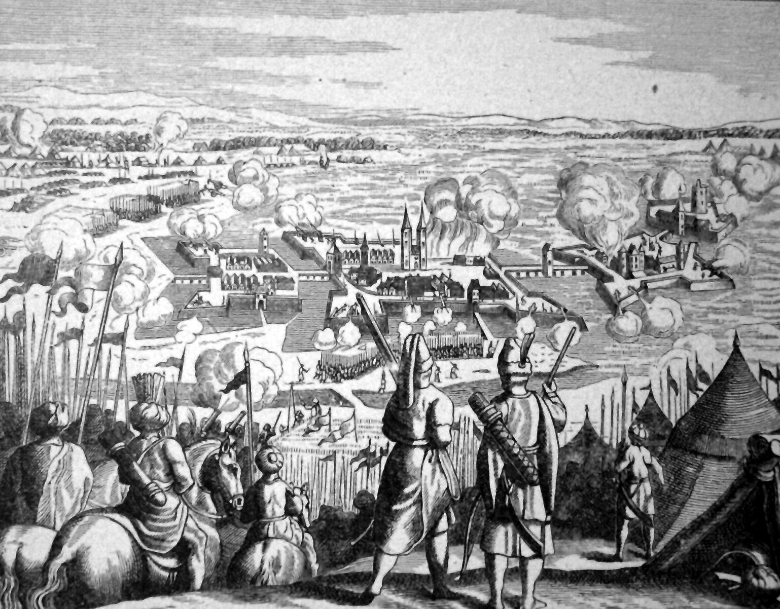 Szigetvár castle in 16th century